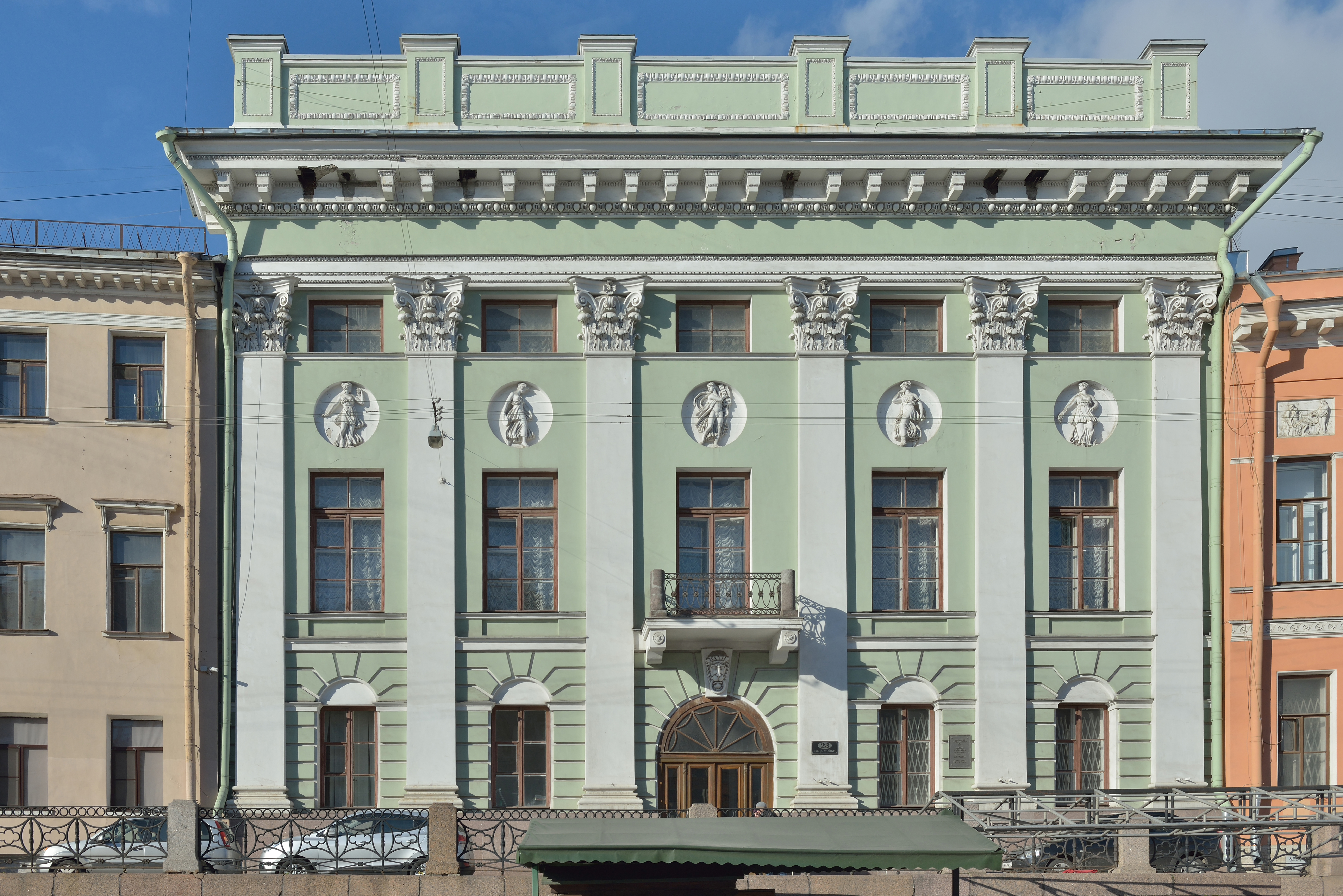 House of Prince S. Abamelek-Lazarev (Last Palace), by architect I.A. Fomin. View from the Moyka River in Saint Petersburg.